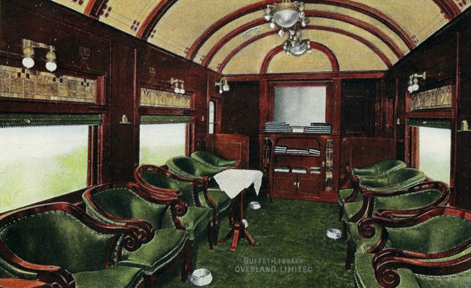 Postcard depiction of the Buffet-Library car of the "Overland Limited".